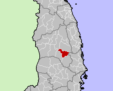 Ayan Pa District, Gia Lai Province, Vietnam.